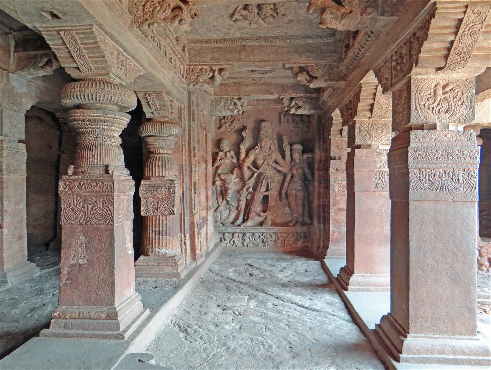 A 6th century Shiva temple rock cut architecture at Badami, Karnataka India Shiva is carved in many shapes and forms in the temple dedicated to him. The Badami cave temples are composed of four caves, all carved out of the soft Badami sandstone on a hill cliff in the late 6th to 7th centuries. The temple caves represent different religious sects. Among them, two (cave 2 and 3) are dedicated to god Vishnu of Hinduism, one to god Shiva of Hinduism (cave 1) and the fourth (cave 4) is a Jain temple. The cave temples were built and refined from 540 to 757 CE. Their architecture is a blend of North Indian Nagara Style and South Indian Dravidian style. Shiva Ardhanariswara sur la paroi droite de la véranda de la grotte la plus ancienne (fin VIème siècle) du site de Badami. Shiva Ardhanariswara est la représentation du dieu réunissant les principes masculin et féminin. Les piliers à chapiteaux finement sculptés sont dans un excellent état de conservation. Badami fut la capitale de l'empire des Chalukya de 540 à 757, une période importante dans l'histoire de l'art indien. A l'époque Chalukya, les sculpteurs et artisans ont créé les temples troglodytiques, que l'on peut aujourd'hui visiter, et qui ont donné naissance aux temples dravidiens construits en pierre.